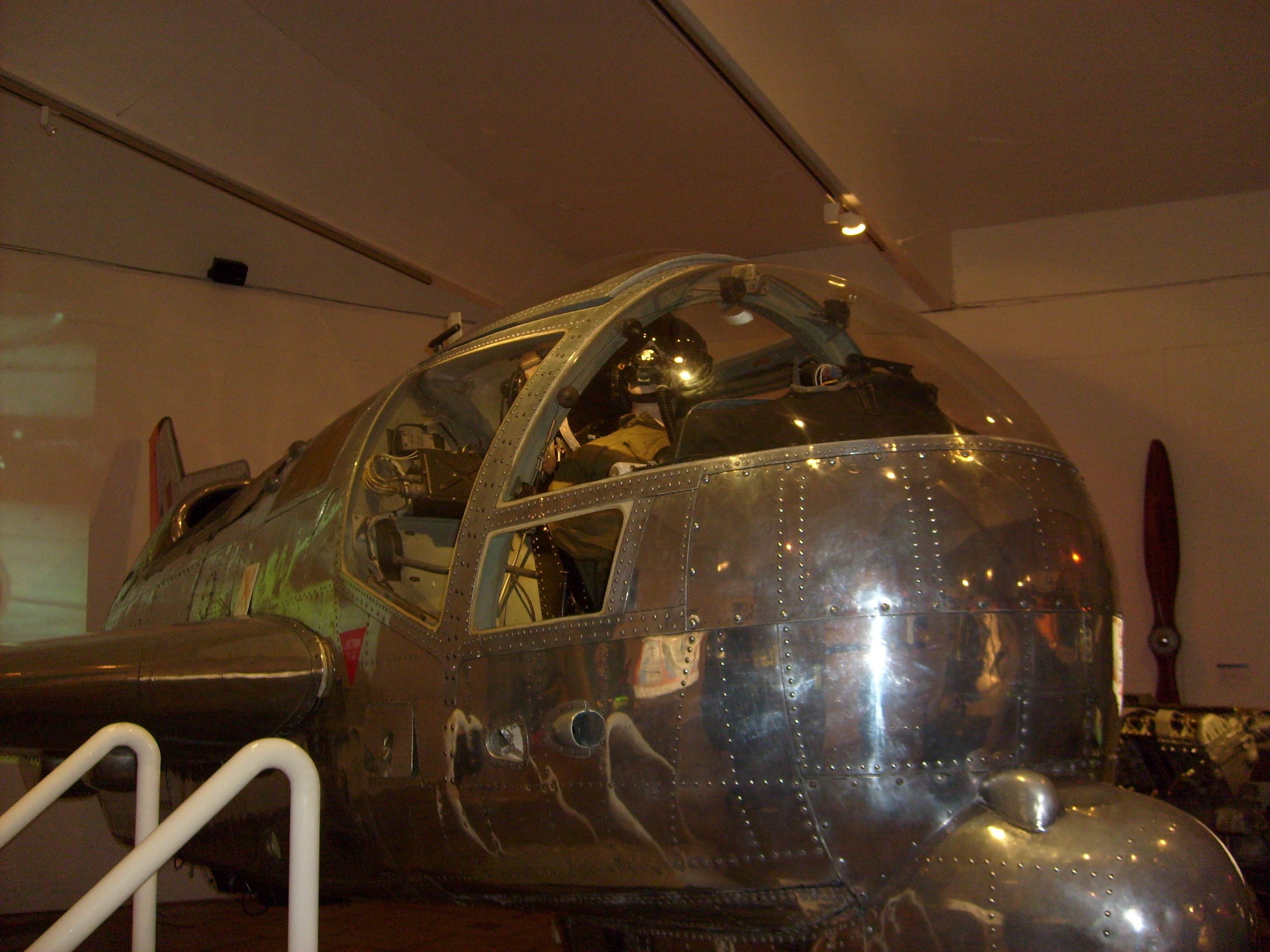 Shorts VTOL